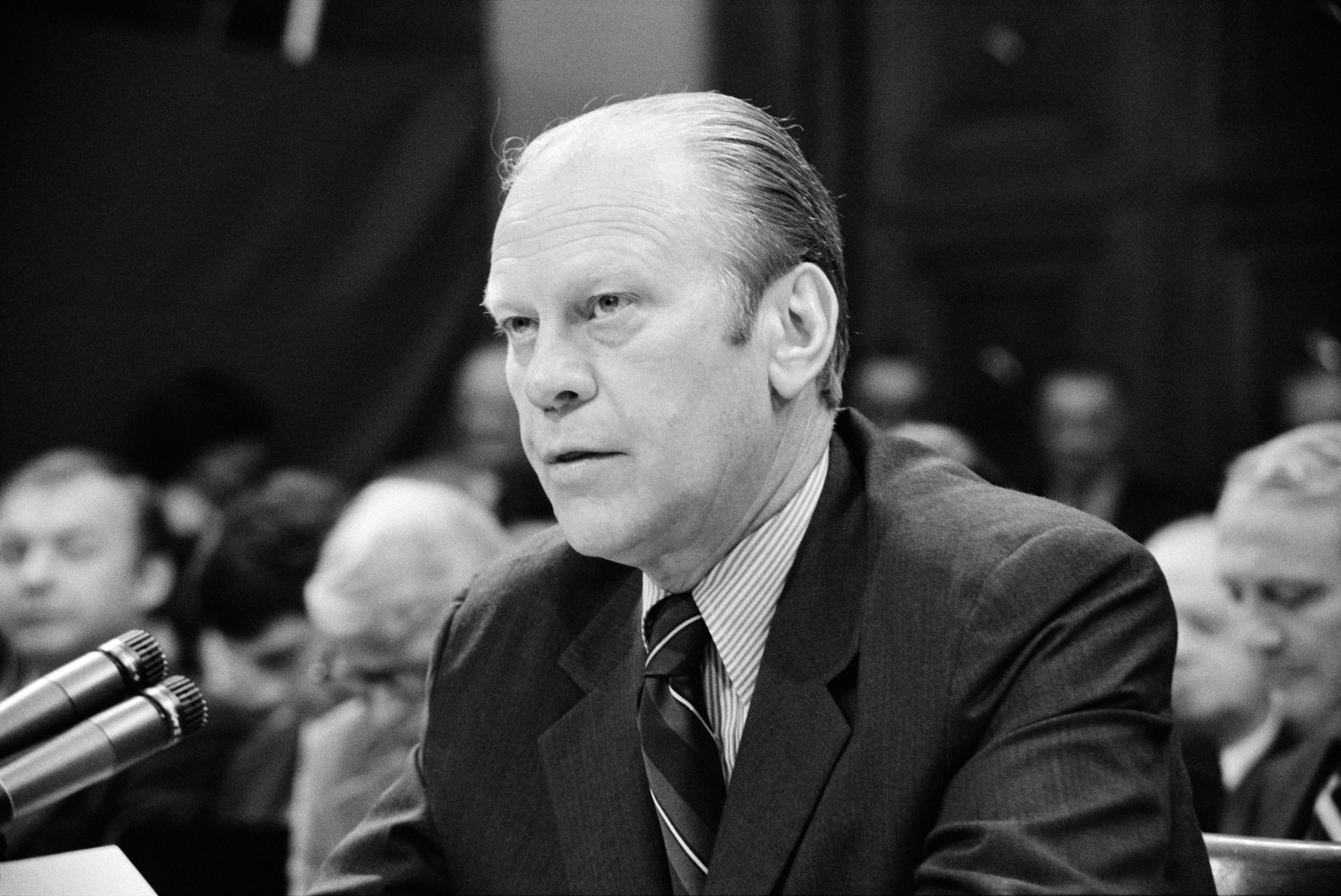 President Gerald Ford appearing at the House Judiciary Subcommittee hearing on pardoning former President Richard Nixon, Washington, D.C.